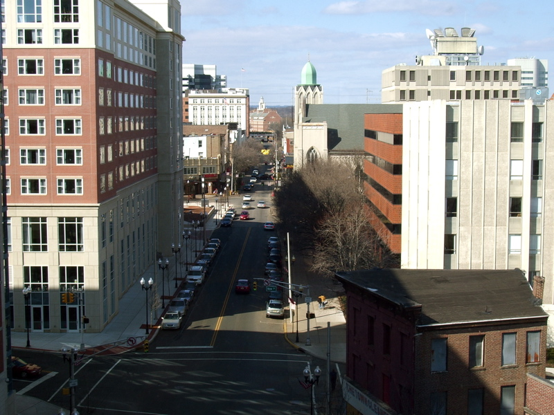 View up George Street from Rockoff Hall with the Heldrich Hotel on the left. The buildings on the lower right, across from Rockoff Hall, have been demolished due to DevCo redevelopment plans.